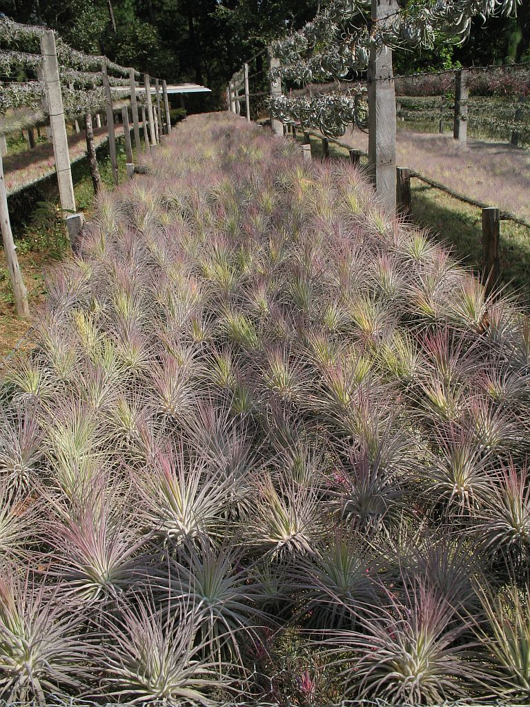 Tillandsia magnusiana, in cultivation in a nursery near Guatemala City, Guatemala; 1965m.